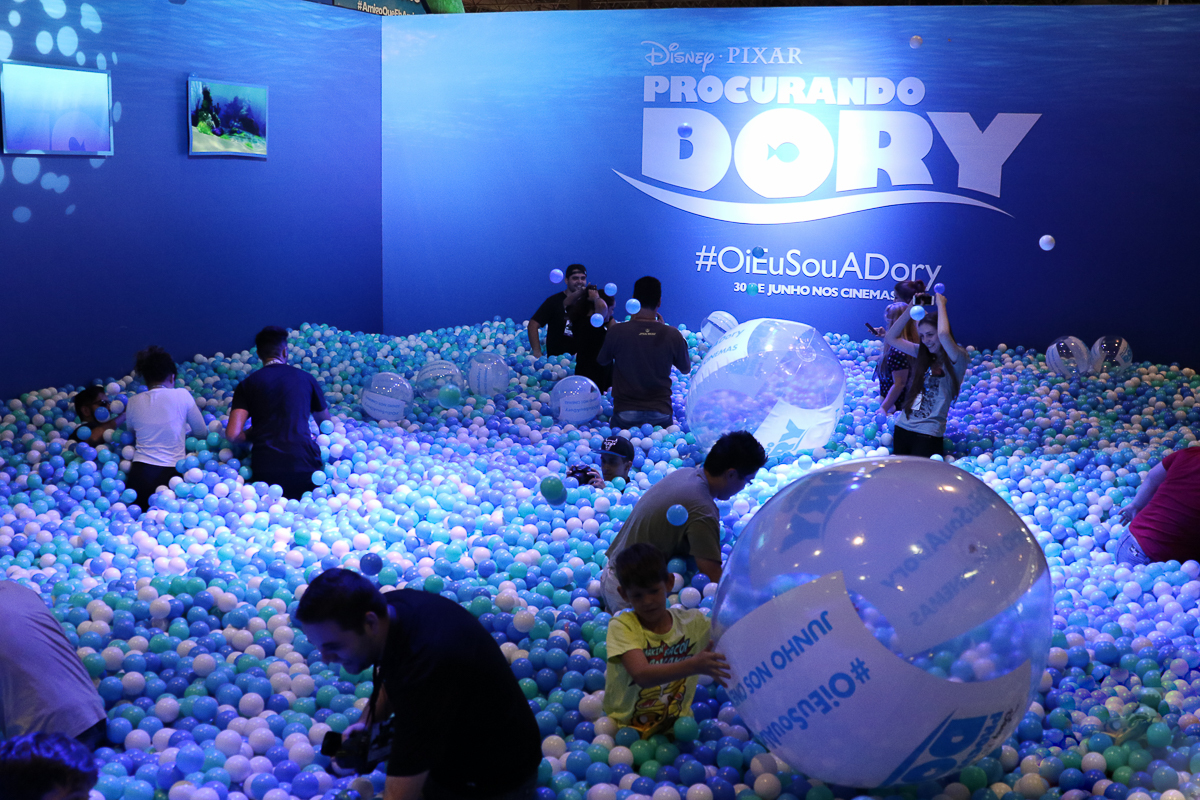 Comic Con Experience 2015